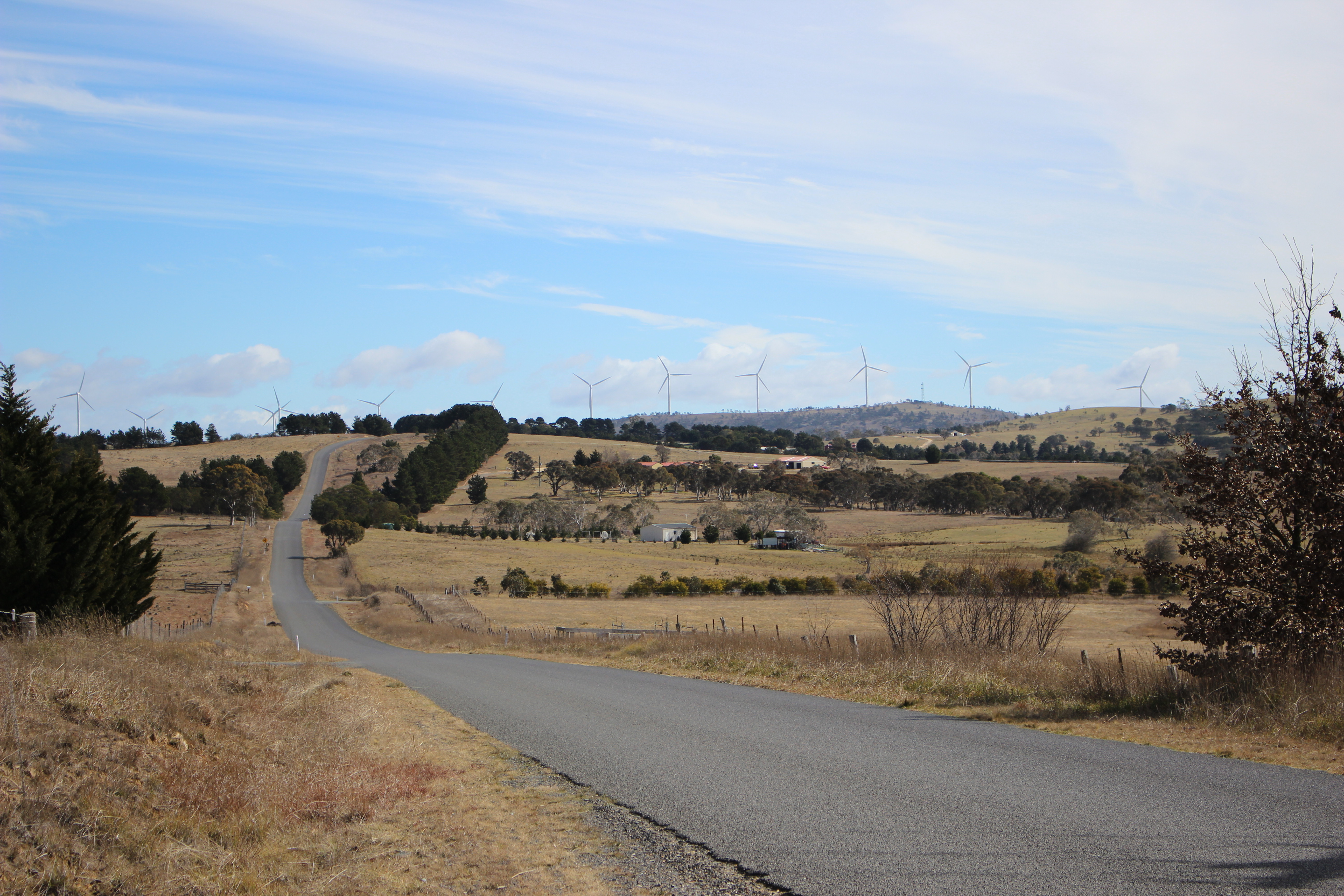 Mount Fairy, looking towards Lake George and Capital Wind Farm